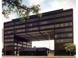 20 Hawley Street, Binghamton, NY.